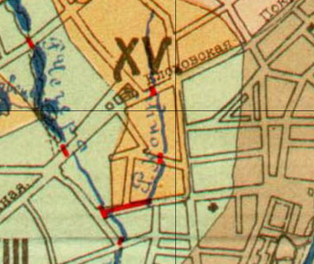 Kukuj stream on an old Moscow map